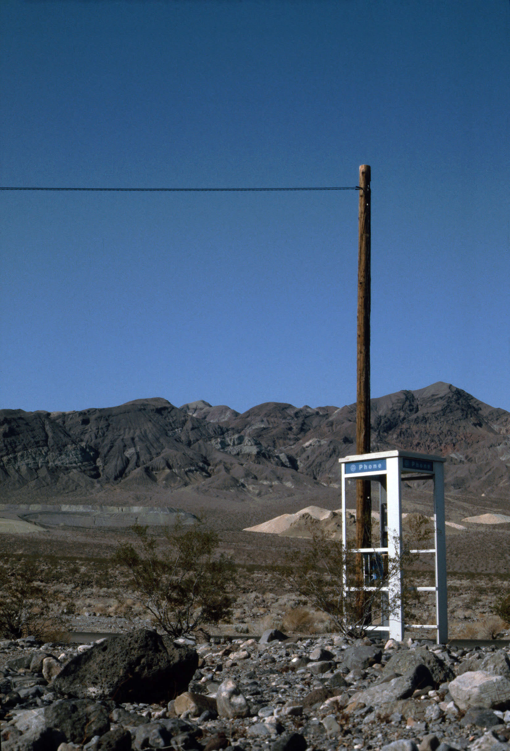 Death Valley, Desert, telephon box